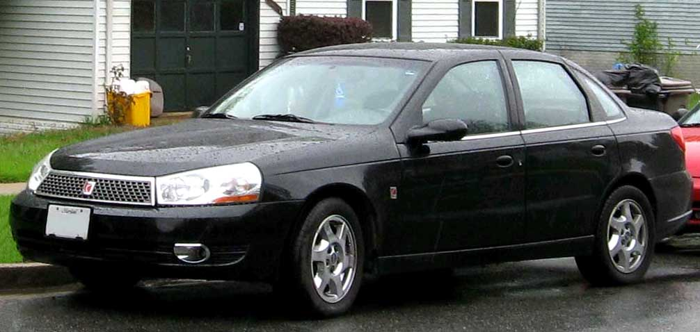 2003-2005 Saturn L300 photographed in USA.